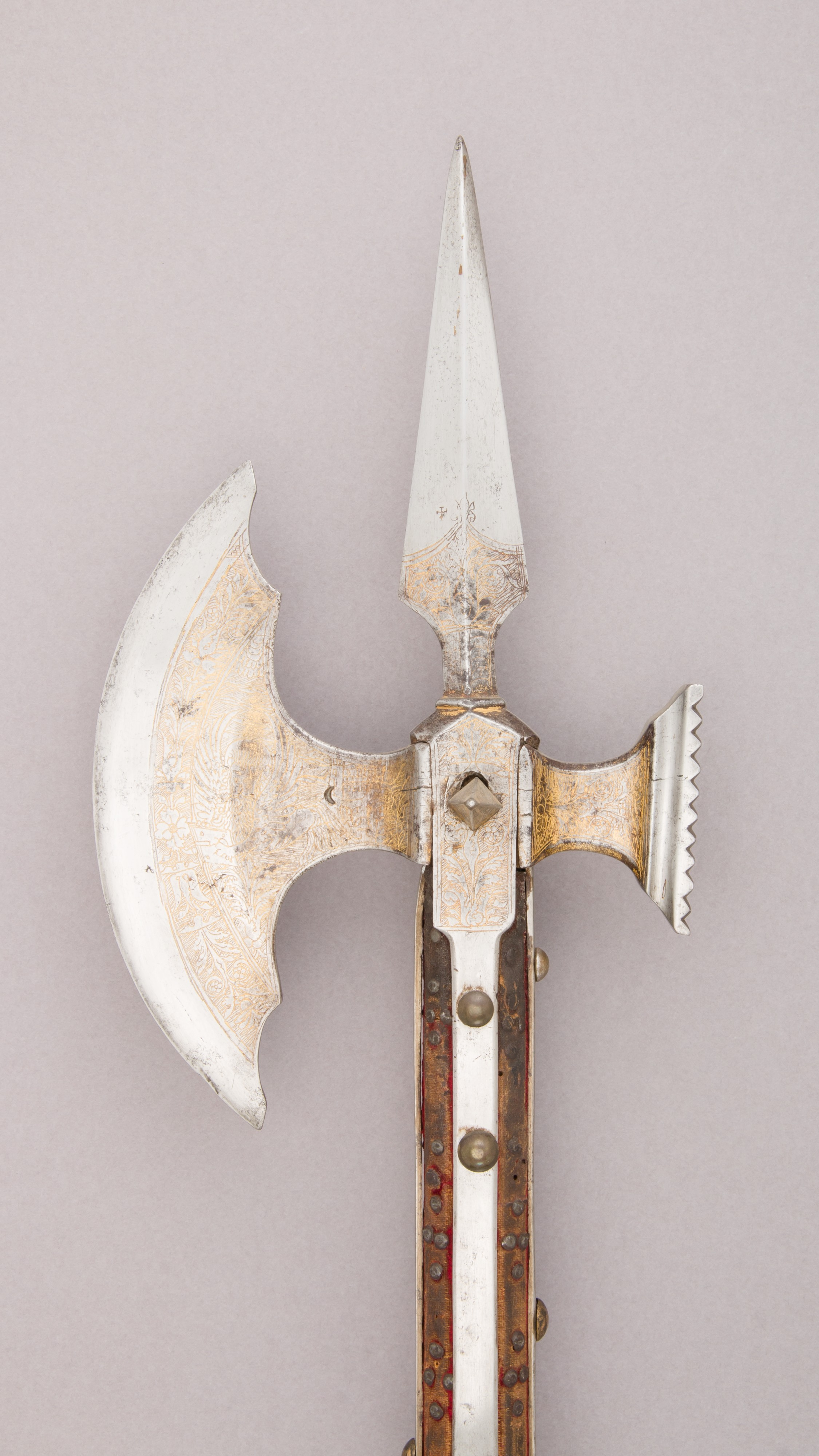 Italian, Venice; Pollaxe; Shafted Weapons